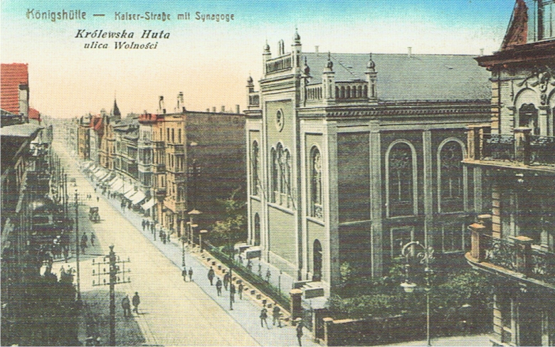 Synagogue of Königshütte (Chorzów now in Poland) destroyed by the nazis in 1939